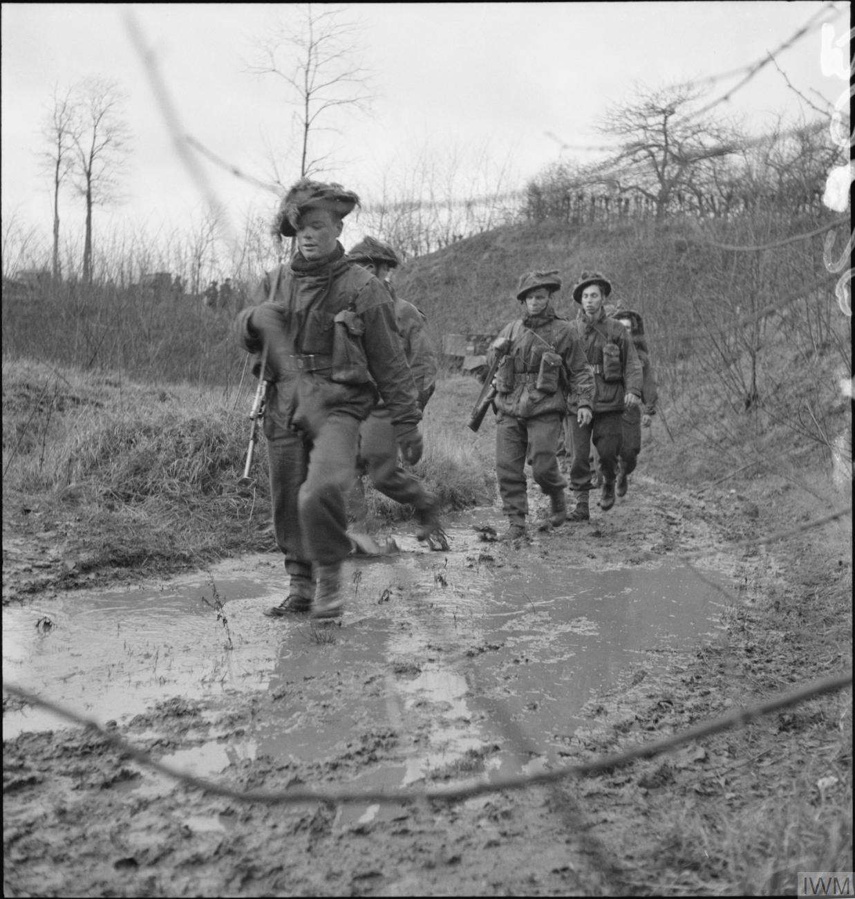 The British Army in North-west Europe 1944-45 Men of 'C' Company, 4th King's Own Scottish Borderers move up to attack a pillbox, Holland, 11 December 1944.